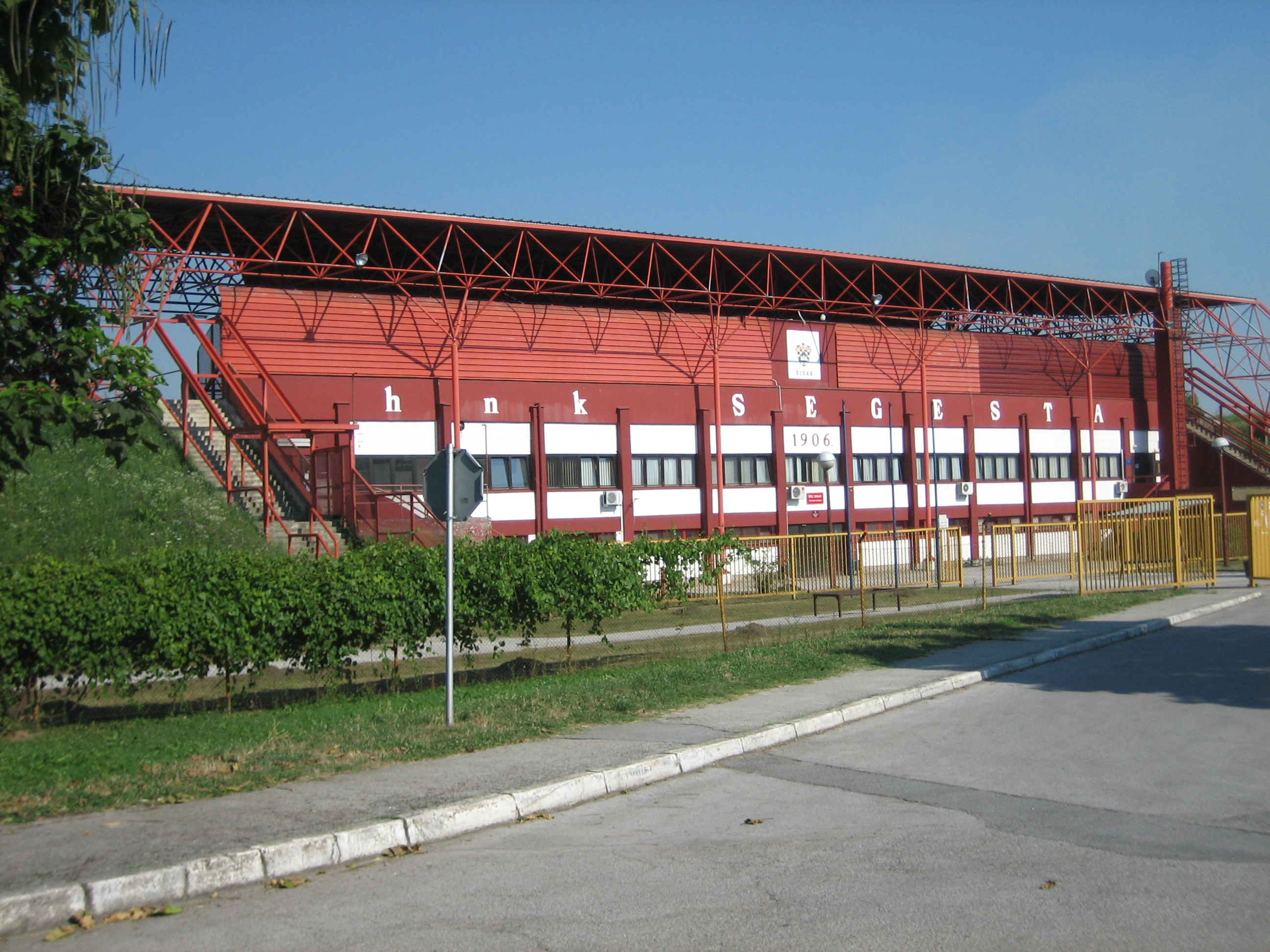 Gradski stadion u Sisku - domaći stadion HNK Segesta Sisak / Stadium of FC Segesta Sisak - the oldest existing football club in Croatia and southeastern Europe.